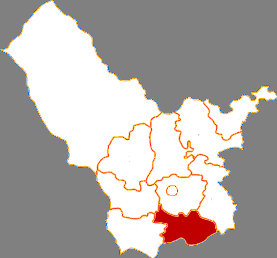 Locator map of Fengzhen County-level City in Ulanqab City, Inner Mongolia, China